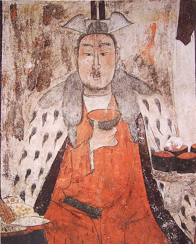 Paintings on the wall of Xu Xianxiu's Tomb of Northern Qi Dynasty